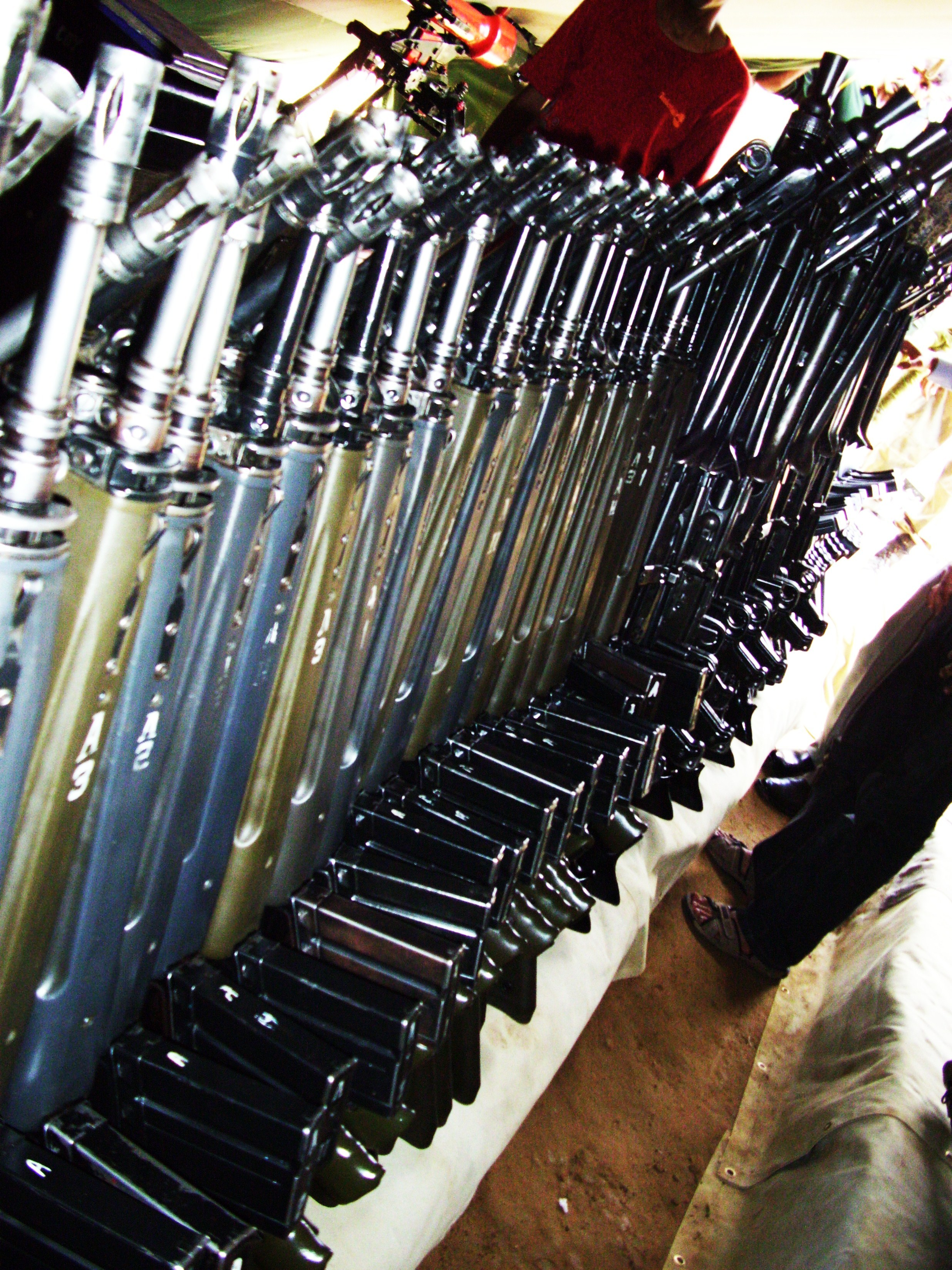 Pakistan Built G3's